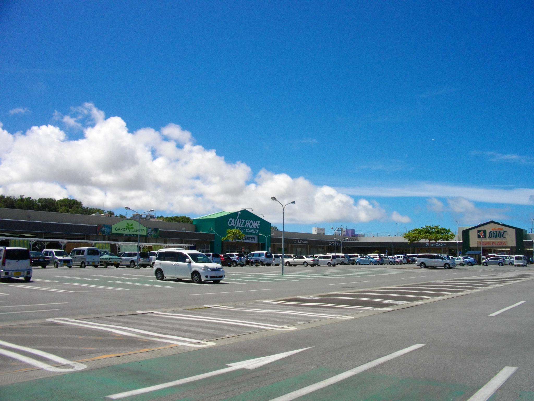 Sunplaza Itoman